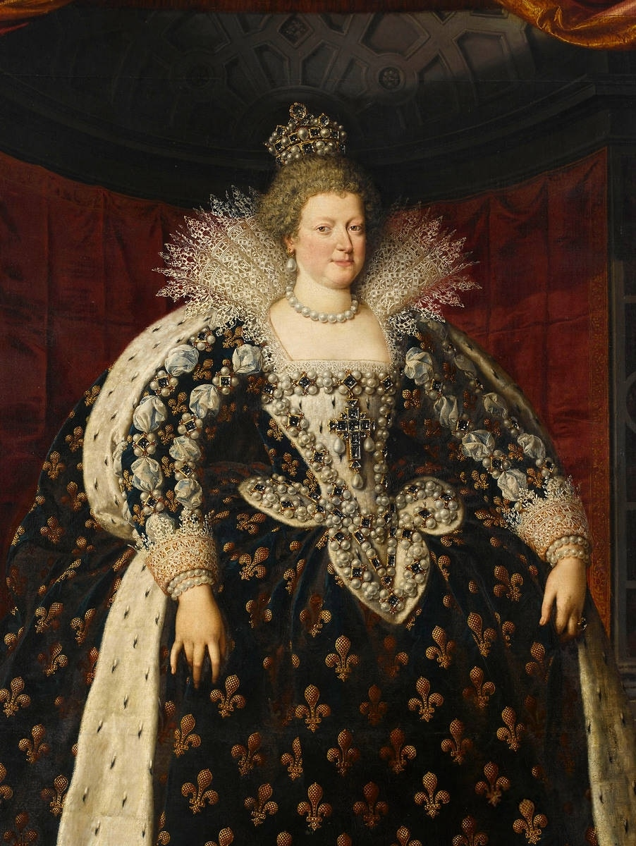 Detail of a portrait of Maria de' Medici in full regalia. She was the wive of Henry IV of France